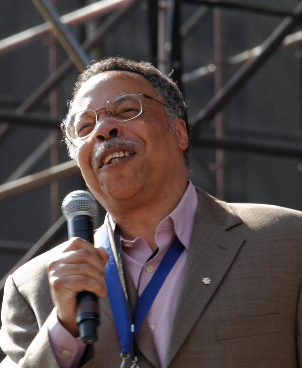 A passionate George Elliot Clarke recites poetry in Nathan Phillips Square, during the opening of the 2015 Pan American Games, 2015 07 09 (cropped).